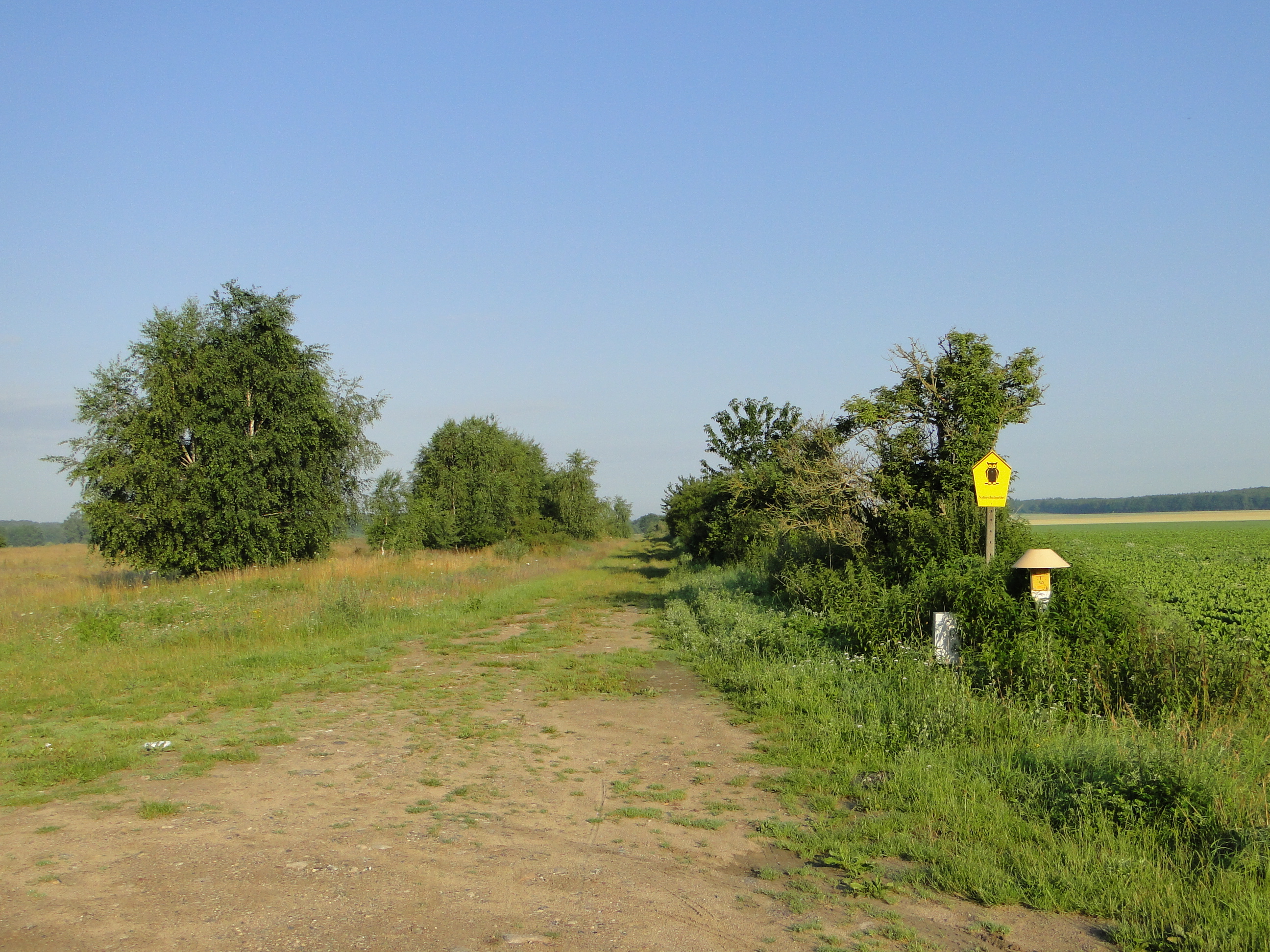 Former inner german border between the Dechow in Mecklenburg-Vorpommern and Mustin in Schleswig-Holstein, part of nature reserve Lankower See